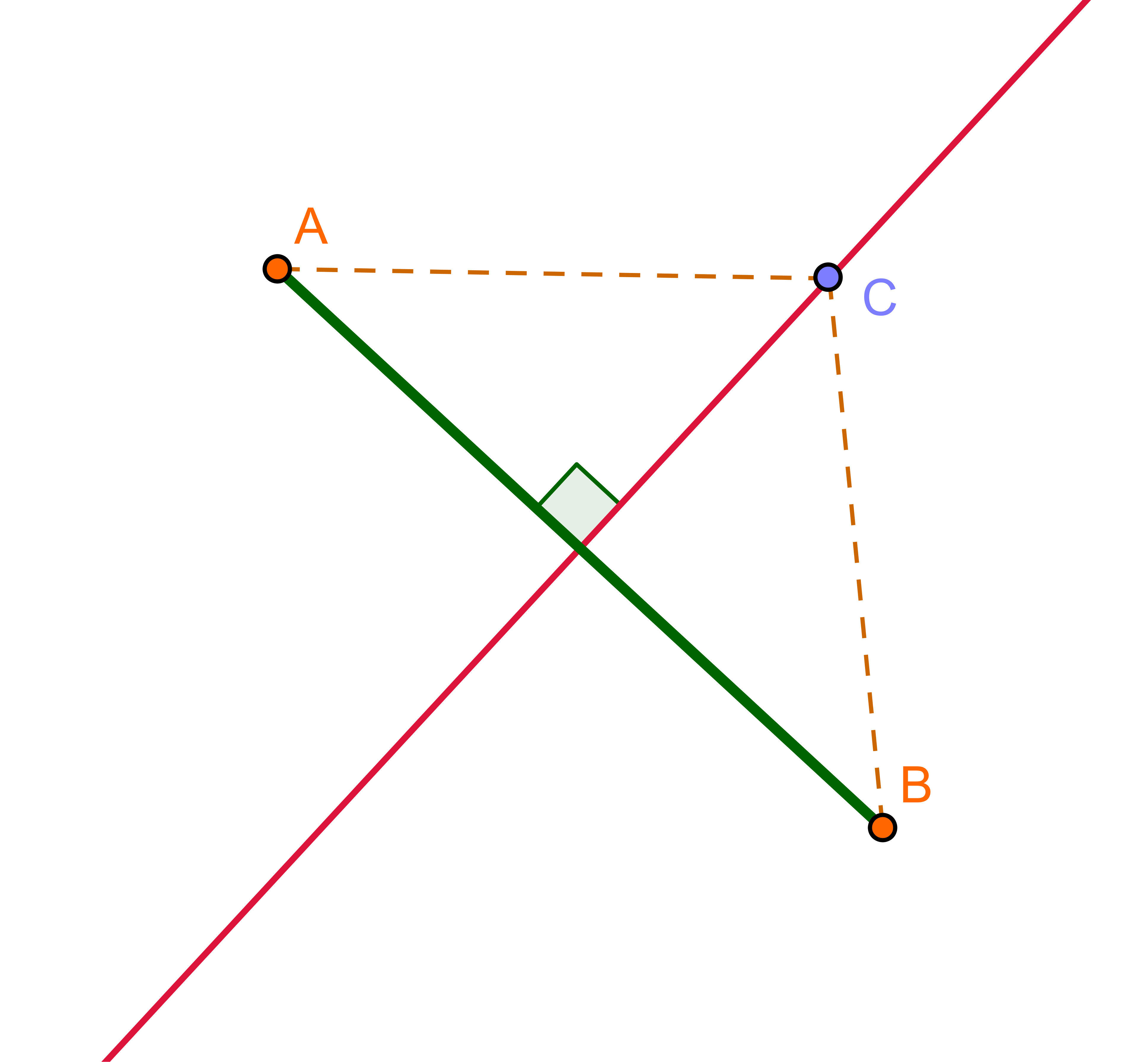 Line segment AB bisector, point of bisector has equal distance to endpoints, bisectors meets on the center of surrounding circle of triangle